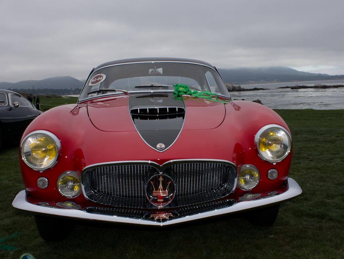 Between 1954 and 1956 Maserati built 60 A6G/54 bare chassis. The 2-liter engine was a Colombo-designed twin-overhead-cam unit with a lightweight alloy block, using dual ignition and triple Weber carburetors. It had a wet sump lubrication system and depending on the equipment used, the motor developed between 120 and 150 bhp. Of this total 19 cars were bodied by Zagato, several by Allemano, and ten convertibles and seven coupes were bodied by Frua. This car is the only surviving A6G/54 Series II Frua coupe. Most Frua convertibles were Series III cars and this car looks similar to the convertible but with a hardtop. 2014 Pebble Beach Concours d'Elegance in Pebble Beach, California.